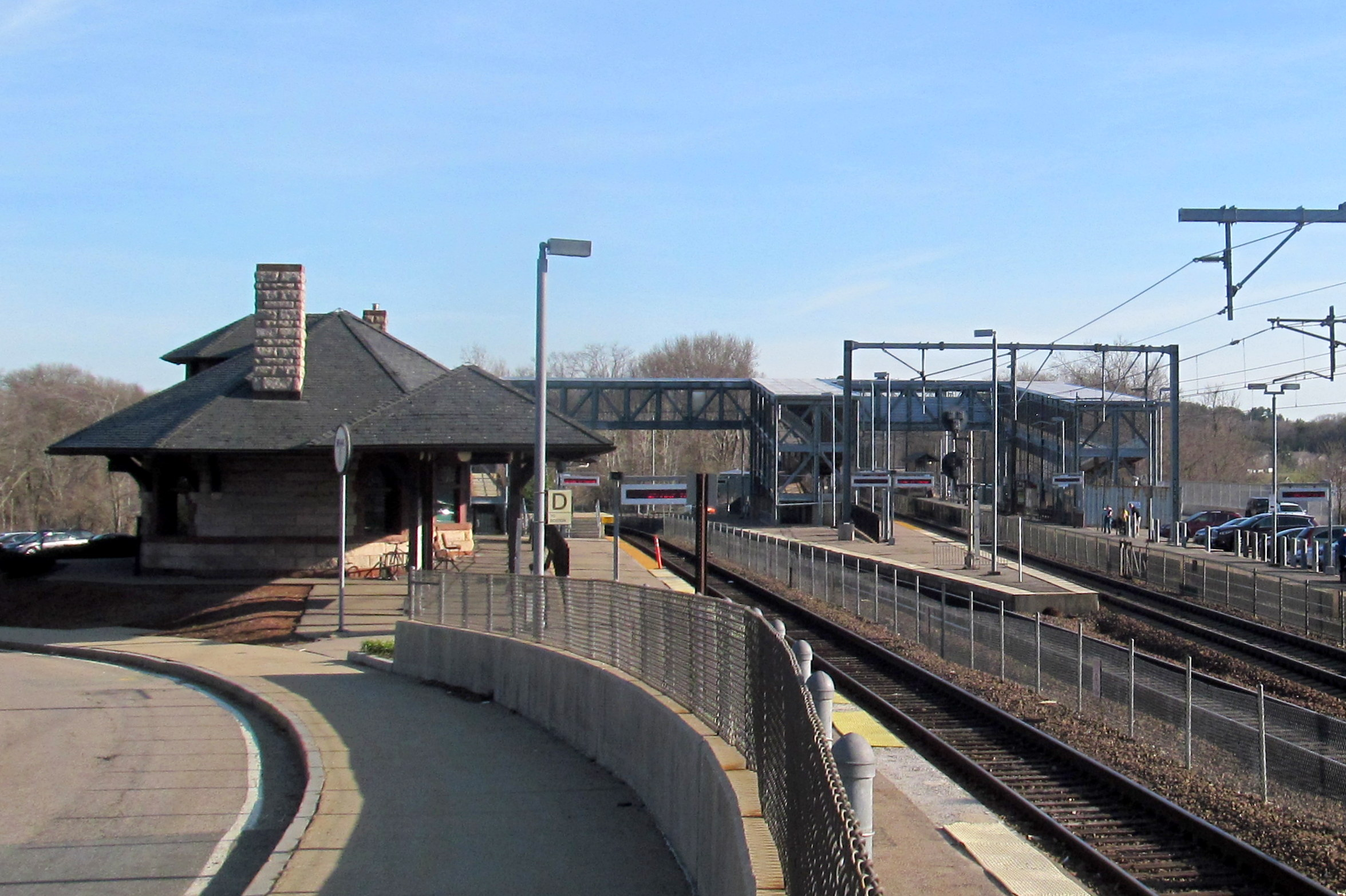 Canton Junction station in April 2016